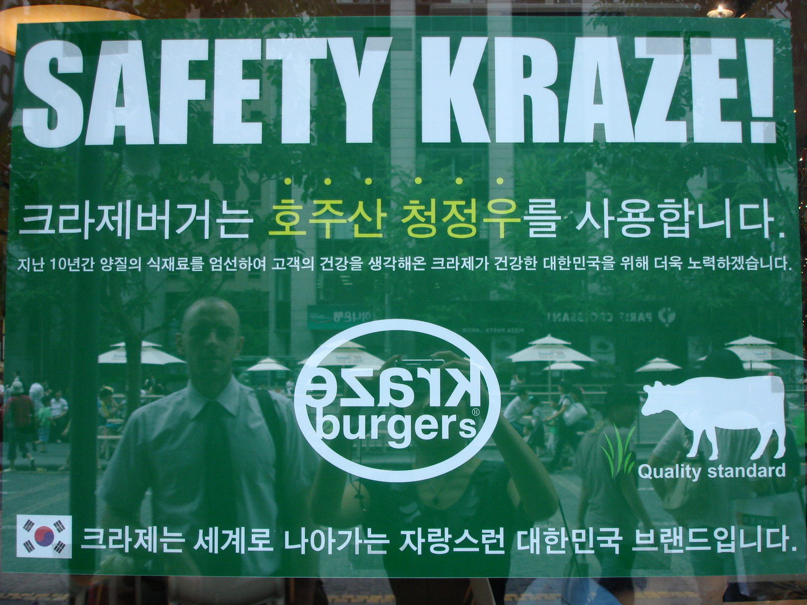 Sign outside a fast-food restaurant in Seoul reassuring customers that only Australian (not US) beef is used there.